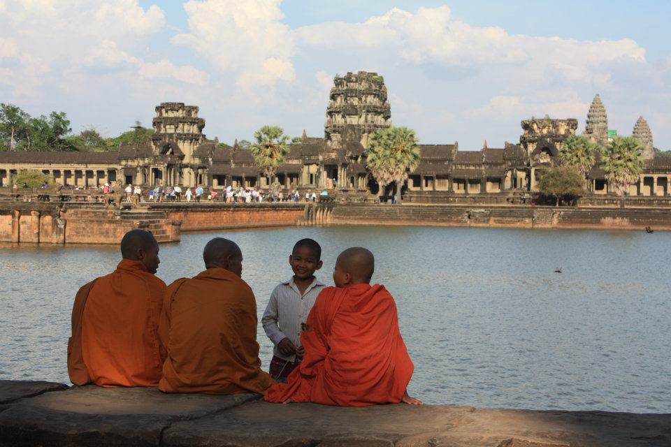 Buddhist monks enjoying afternoon breeze in front of moat of Angkor Wat, Siem Reap, Cambodia.